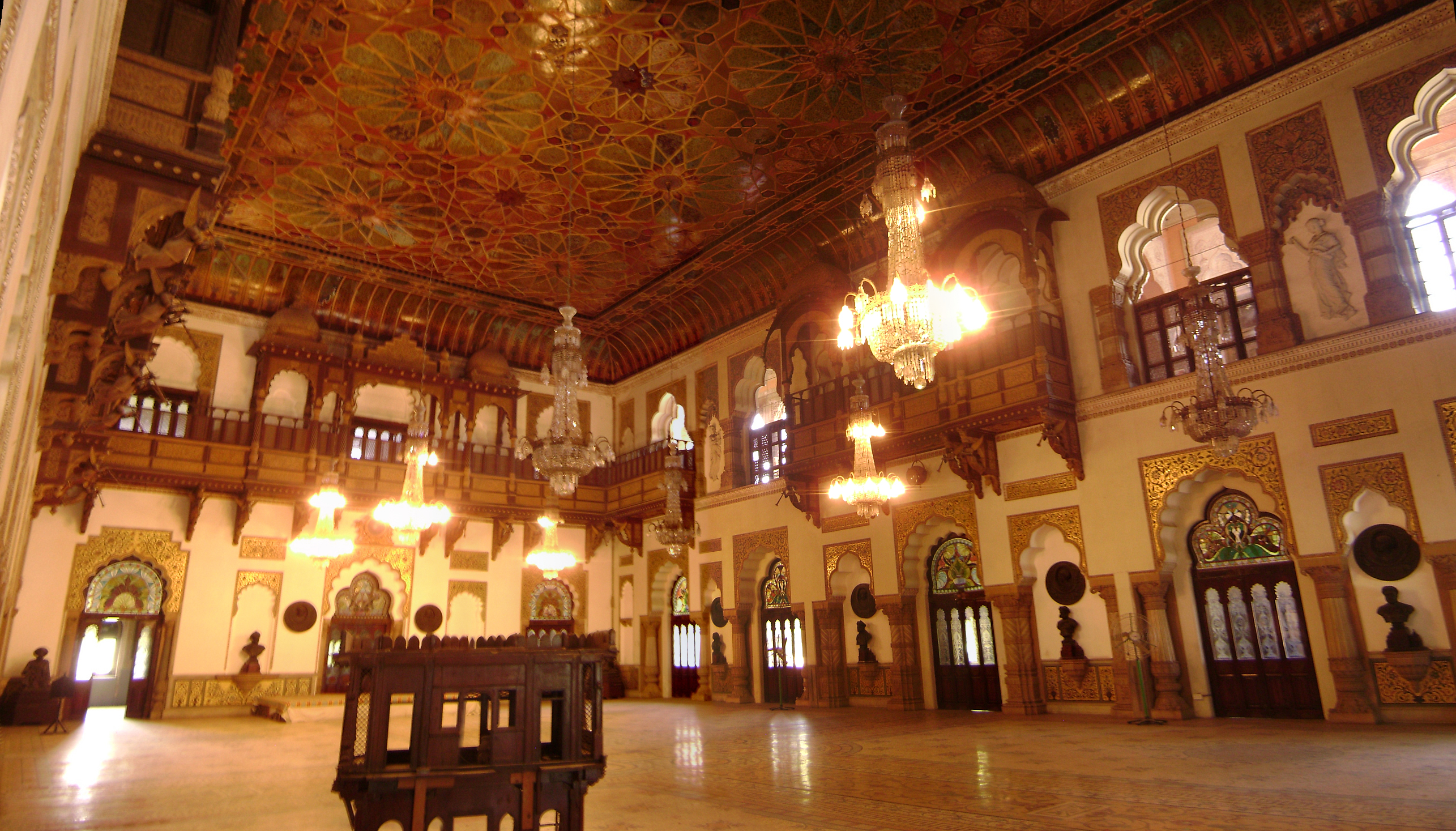 The Diwane Khas at the Laxmi Vilas palace